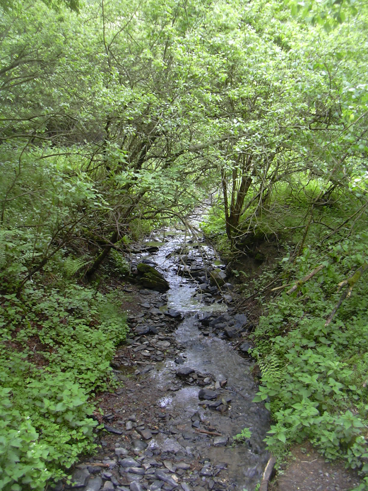 Woods near the Neffgesbach creek, Eifel National Park, Germany